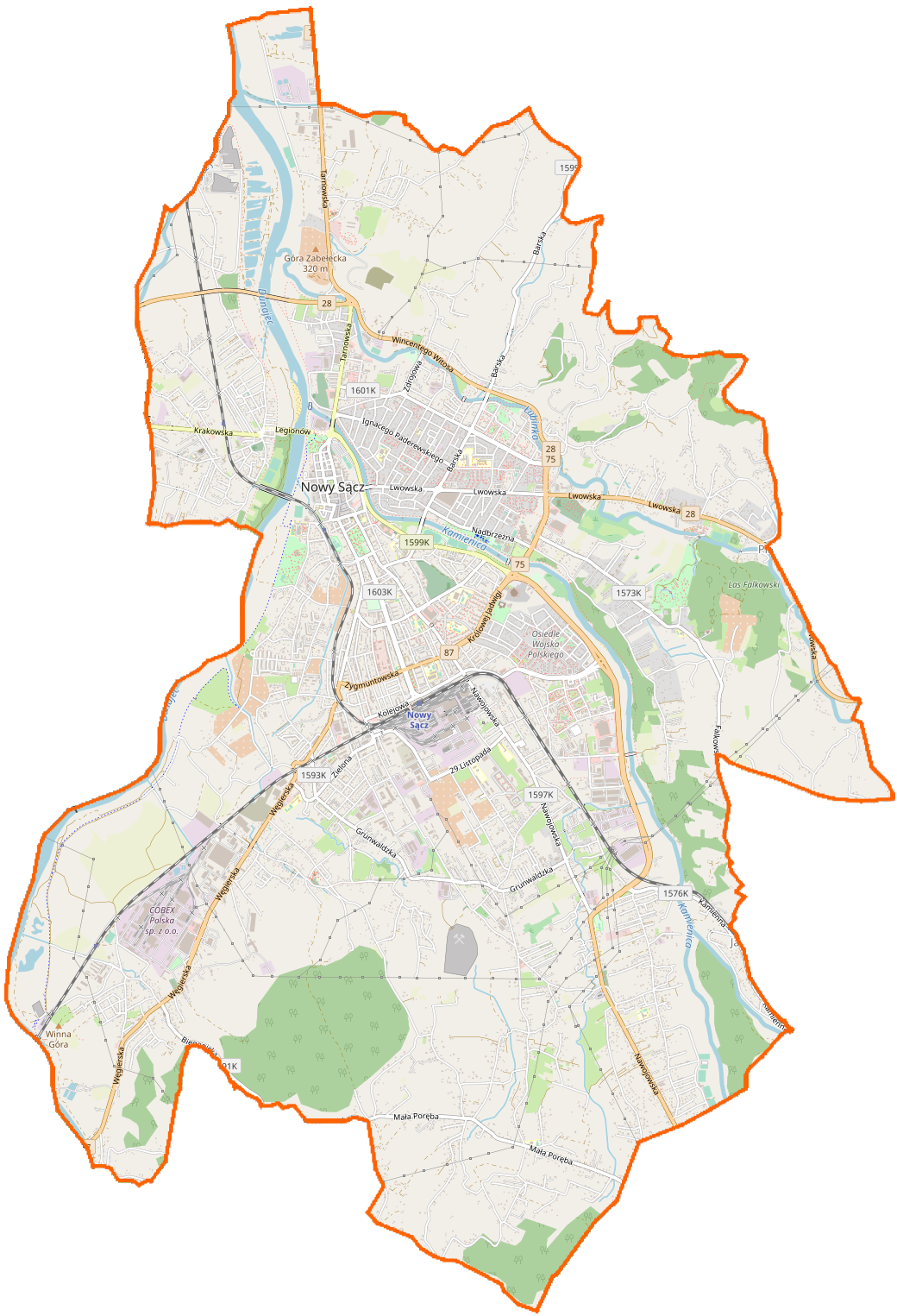 Location map